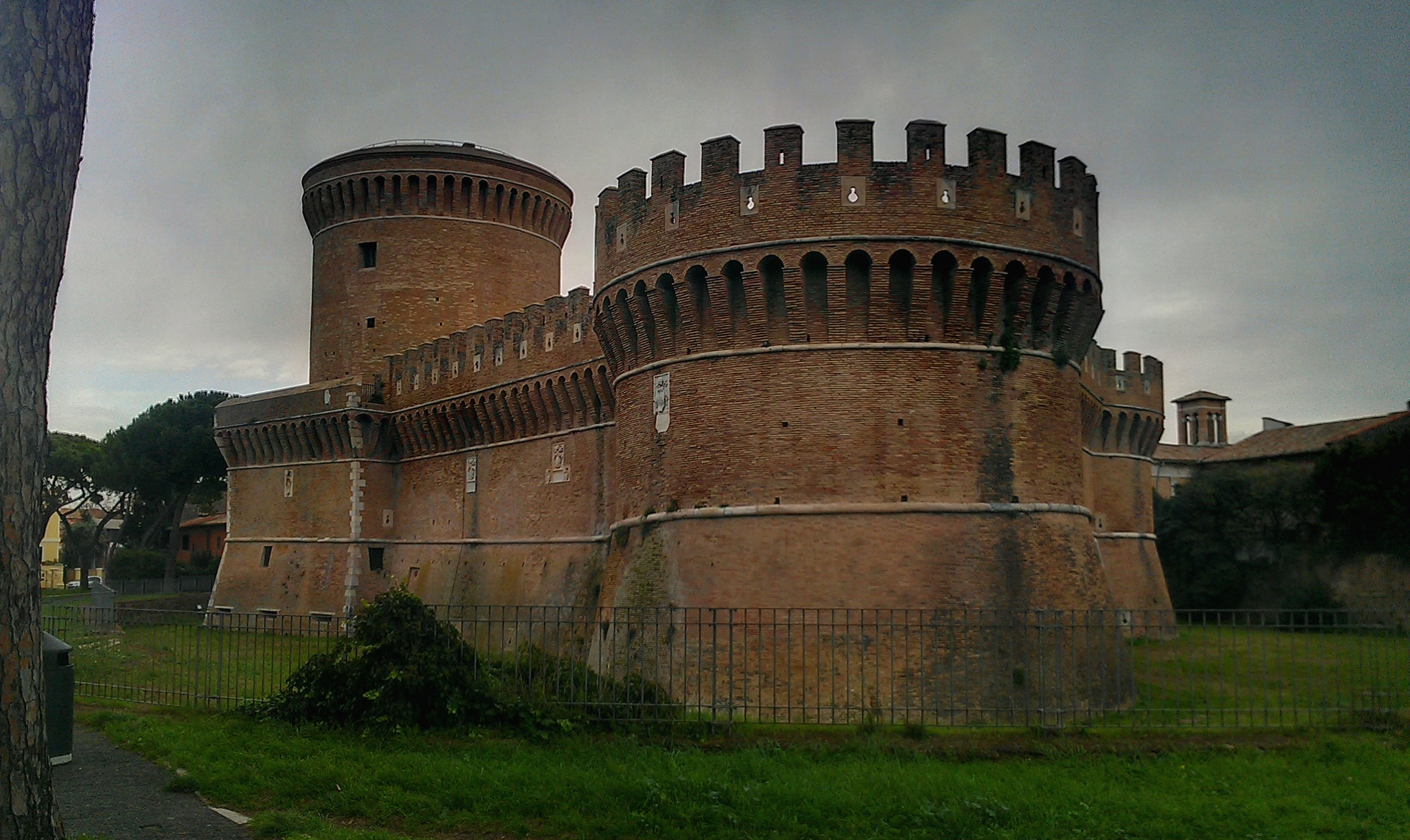 The Castello di Giulio II (Castle of Julius II) in Ostia Antica (district).